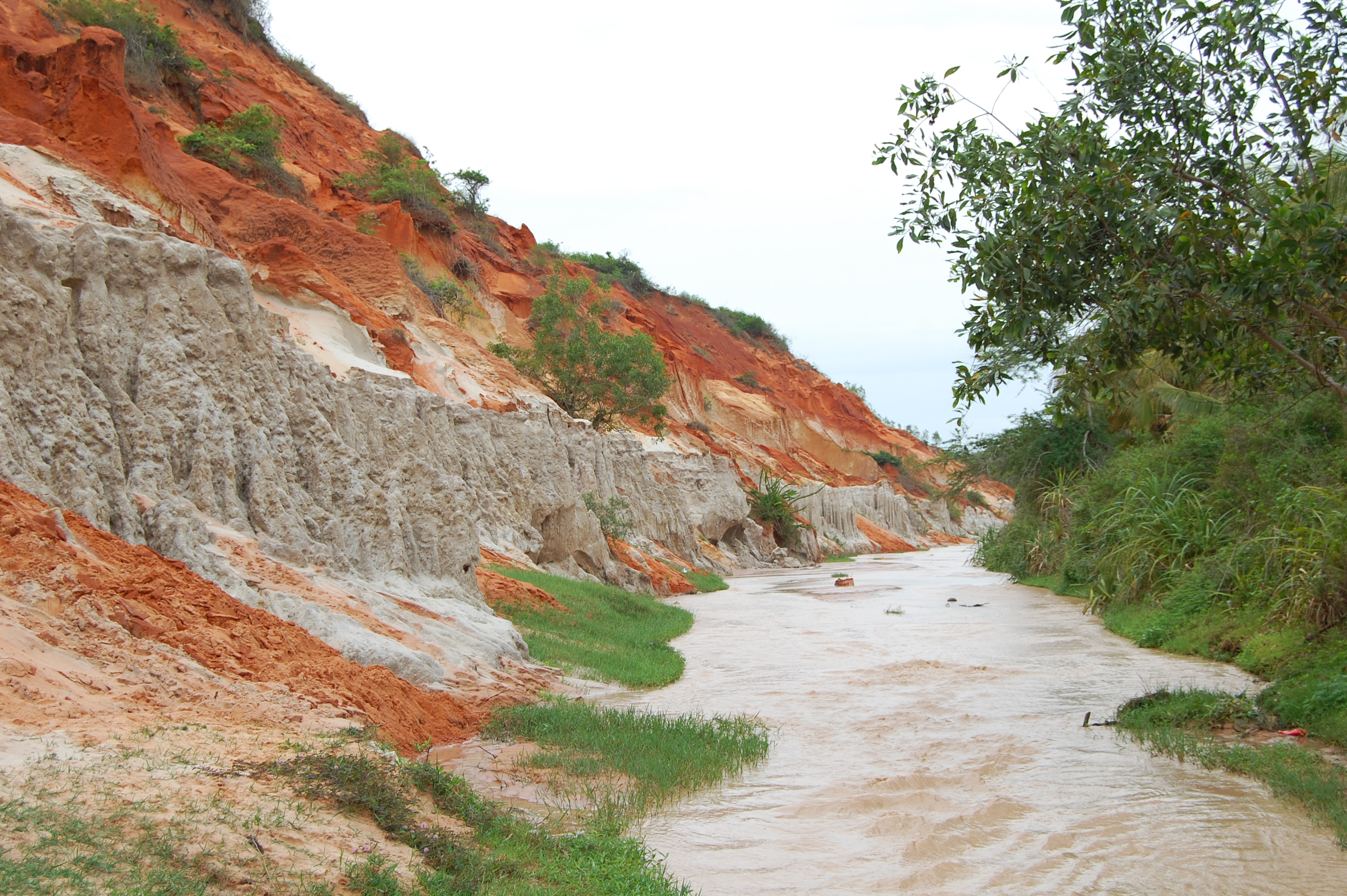 The Fairy Stream was a shallow sandy bottom creek that you could follow from the beach up a ways to a small waterfall. The sand formations along the way were really cool and it looked like they were carved out just the day before.